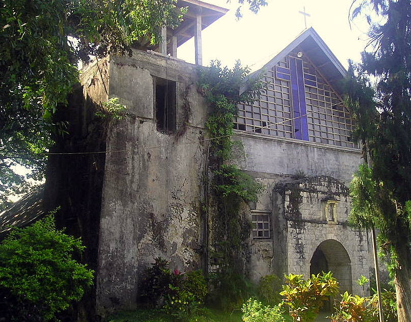 Sagay was established as a mission in 1749. There are no currently records on who buillt its church that has maintained its original design. Olympus Camedia (SWP Mindanao Conference, July 2005). Slightly improved with Picasa.